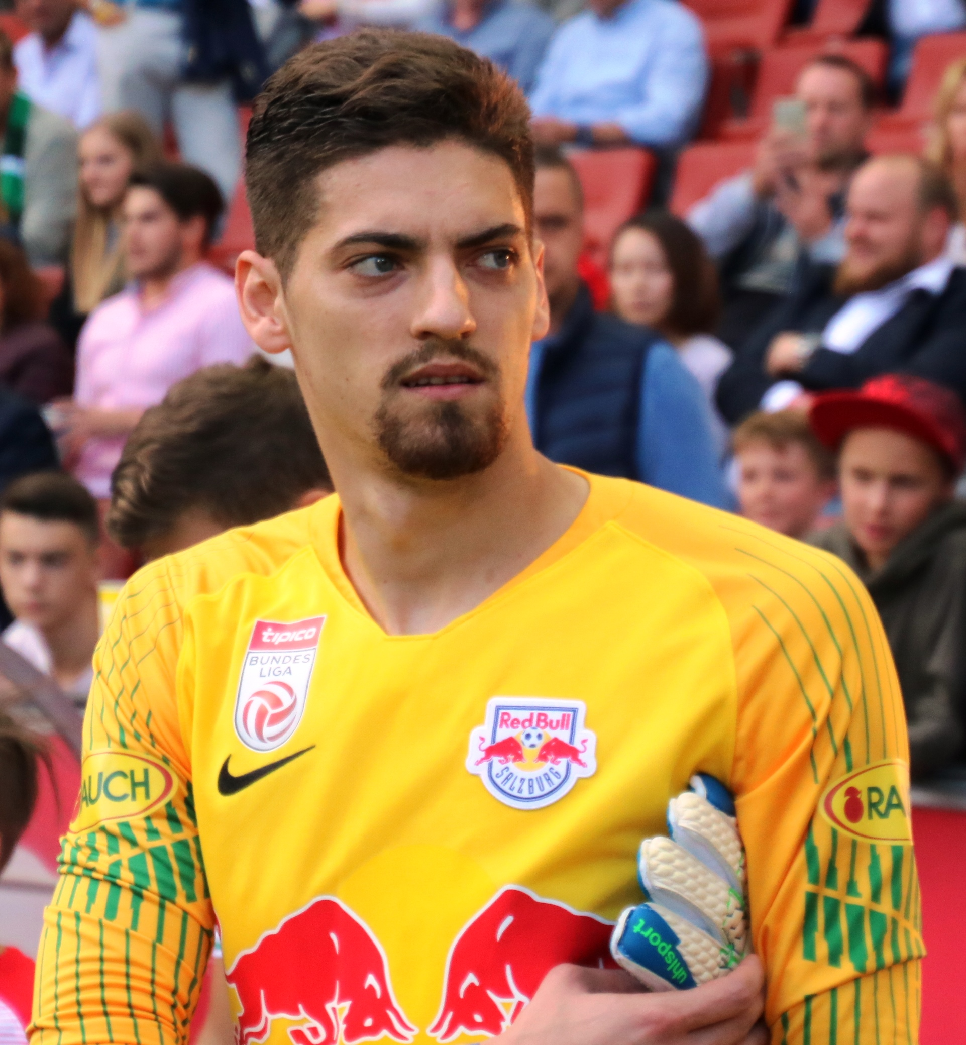 Austrian Bundesliga league match 8th round